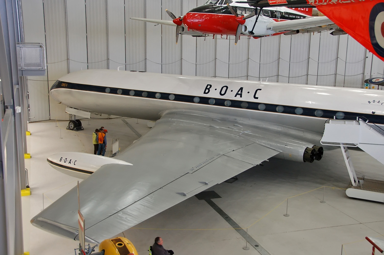 A BOAC de Havilland Comet 4 at the Imperial War Museum, Duxford.